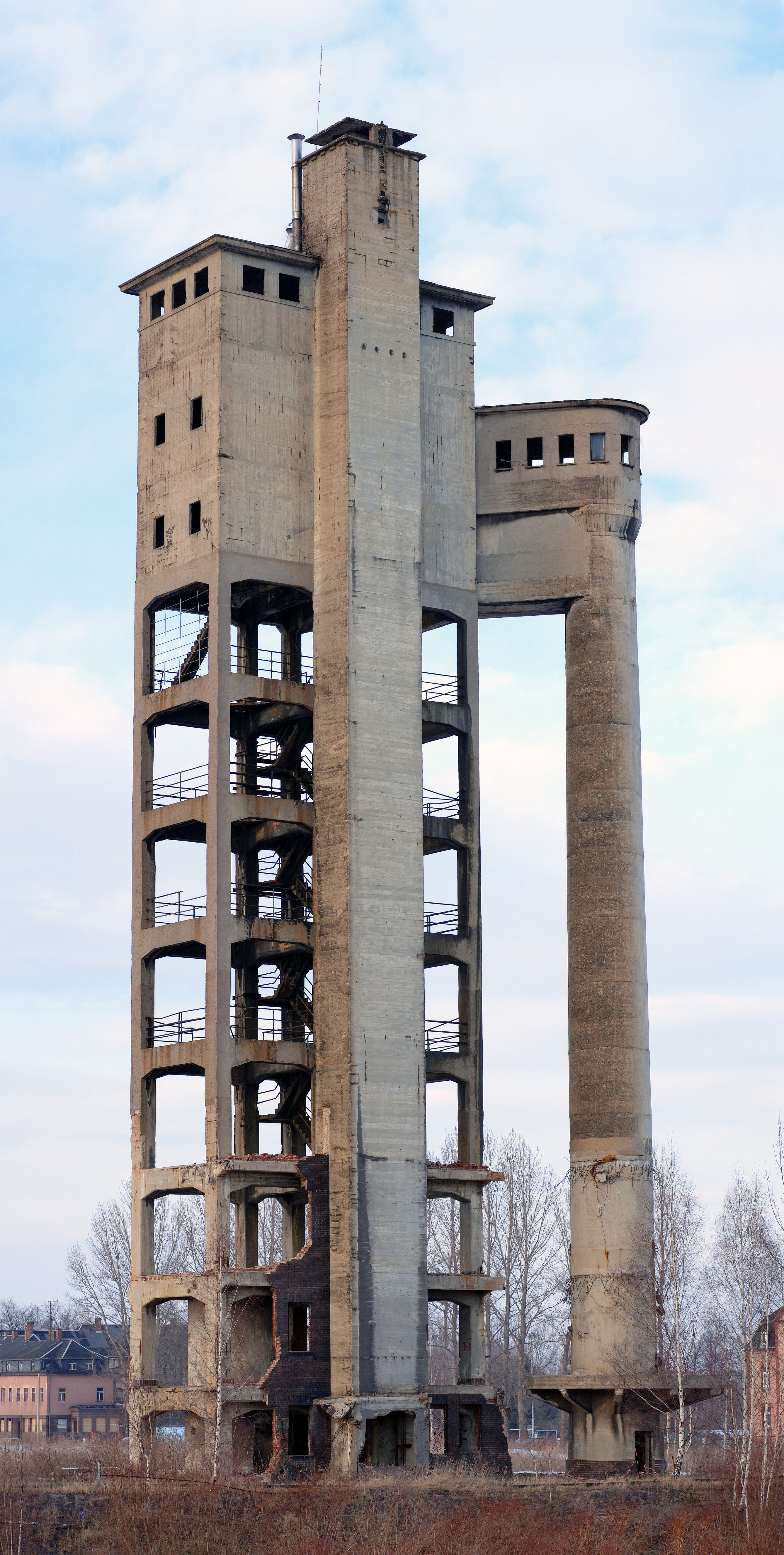 This image shows an "acid tower" as formerly used for producing paper. The tower was used for the production of calcium bisulfite from sulfur and limestone. Crossen, Zwickau, Saxony, Germany.